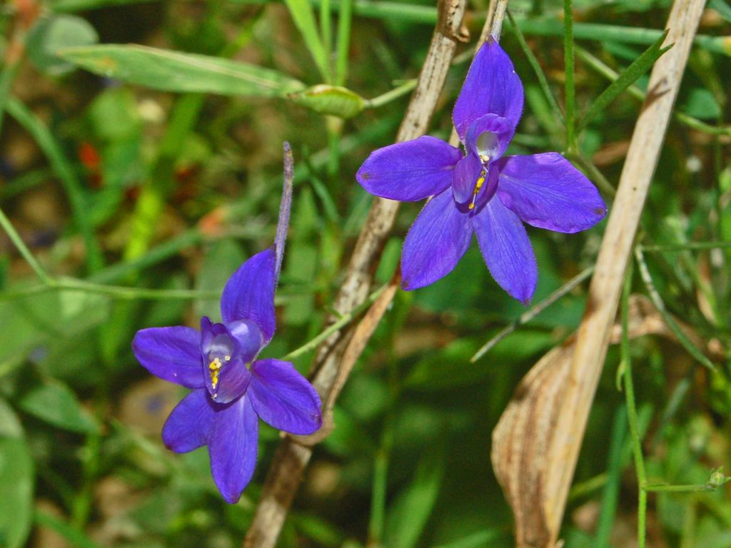 Consolida regalis - Cerreto Ratti, Alessandria, Italy